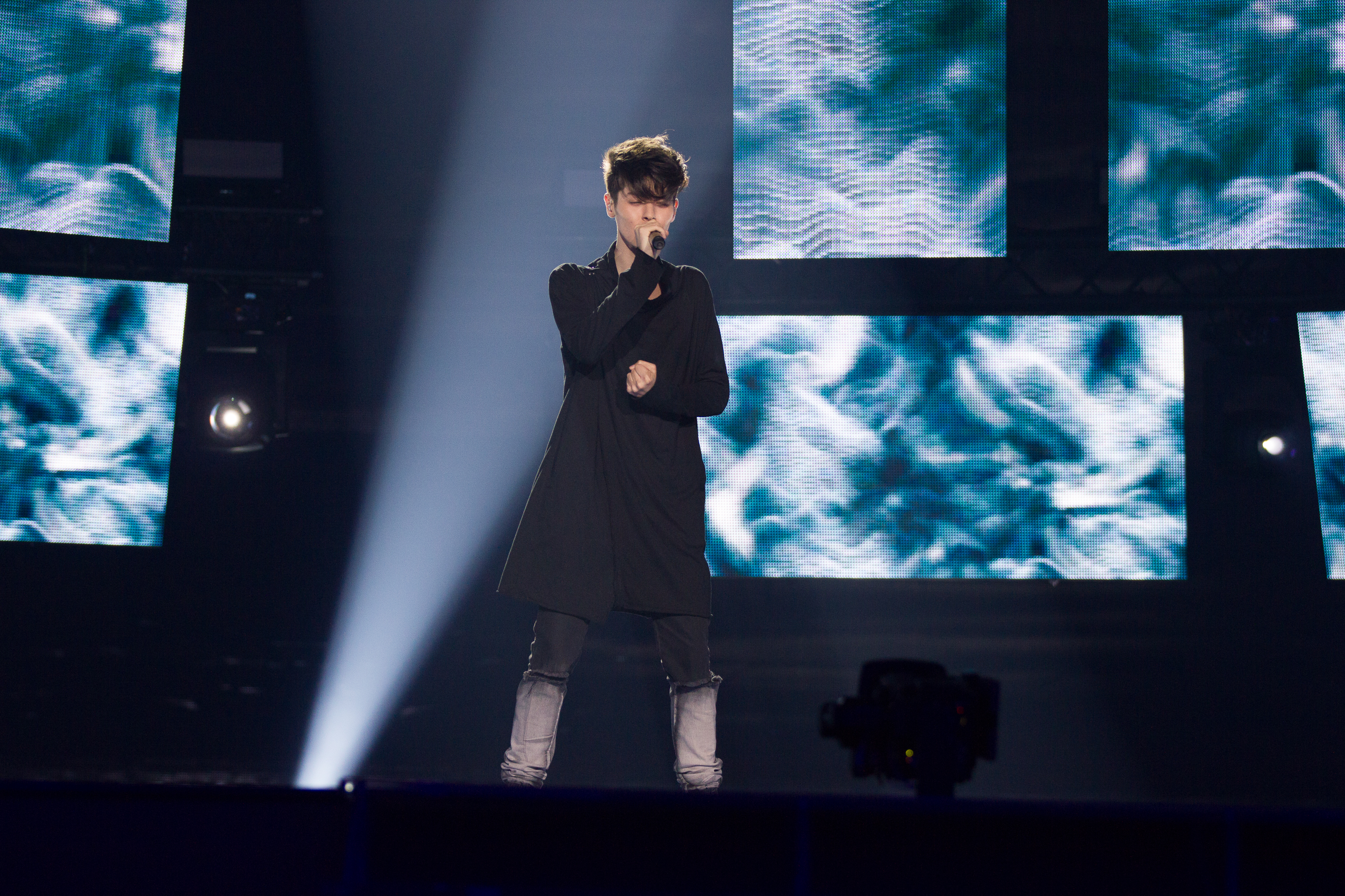 Kristian Kostov representing Bulgaria with the song "Beautiful Mess" during a rehearsal before the second semi final of the Eurovision Song Contest 2017 in Kyiv.